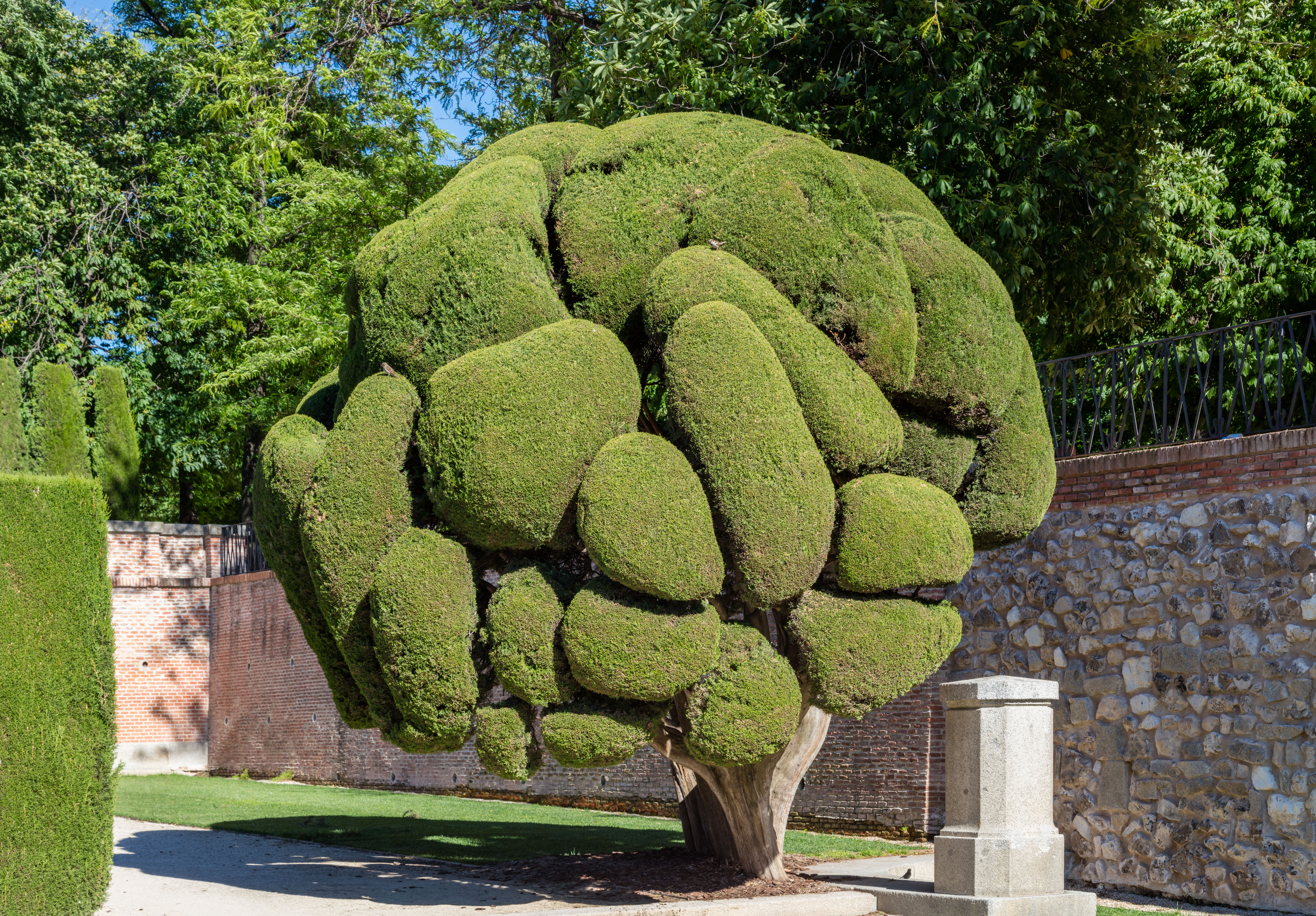 Parterre Square, Retiro Park, Madrid, Spain